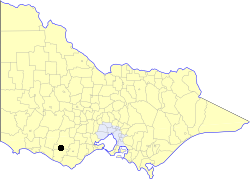 Location of the former Town of Camperdown within Victoria.